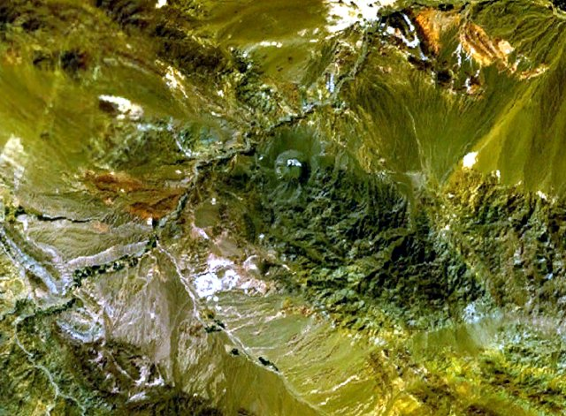 The circular crater near the center of this NASA Landsat image (with north to the top) is the largest maar of the Qal'eh Hasan Ali volcanic field in SE Iran.